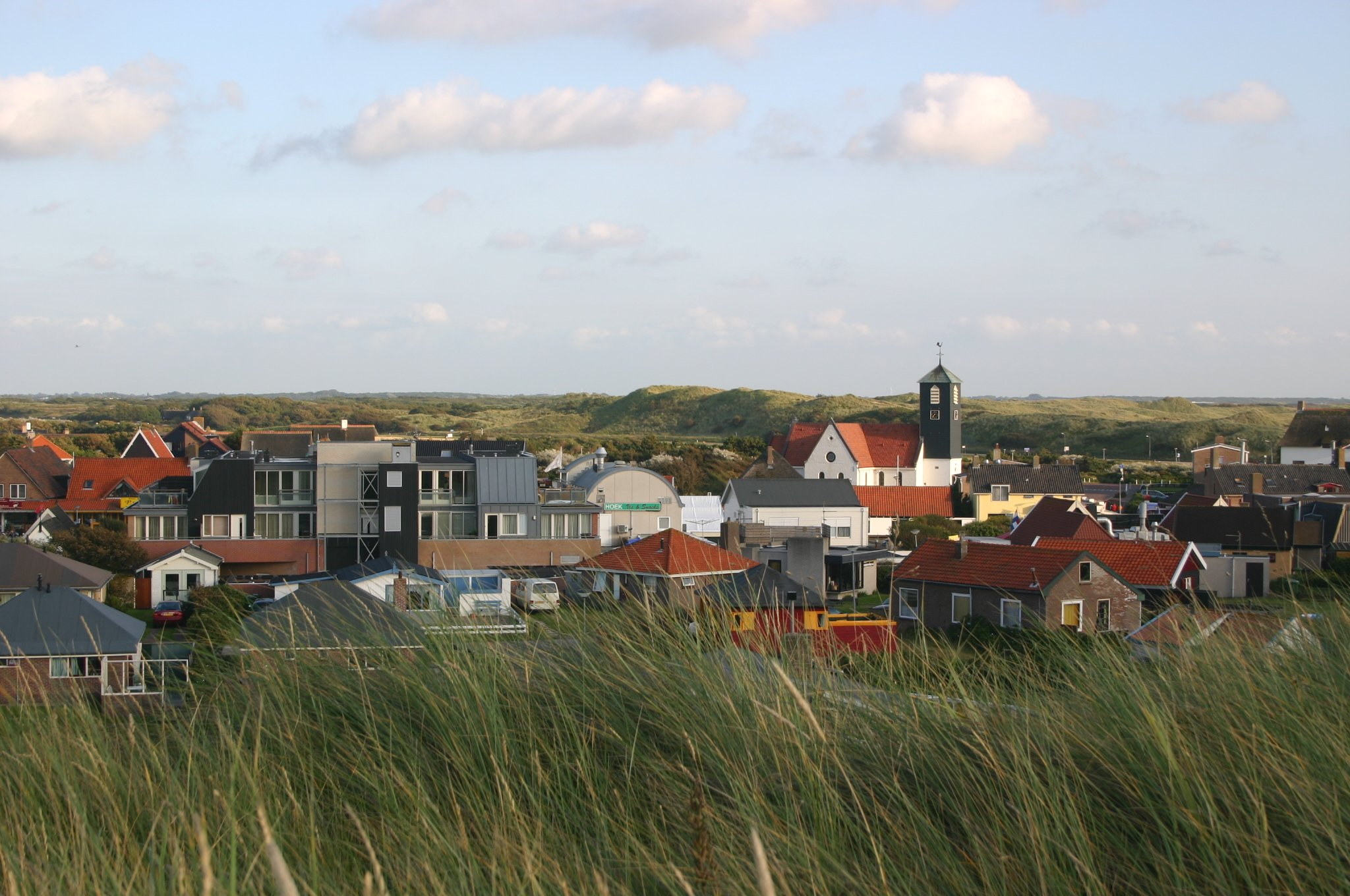 Callantsoog, North Holland, seen from the dunes